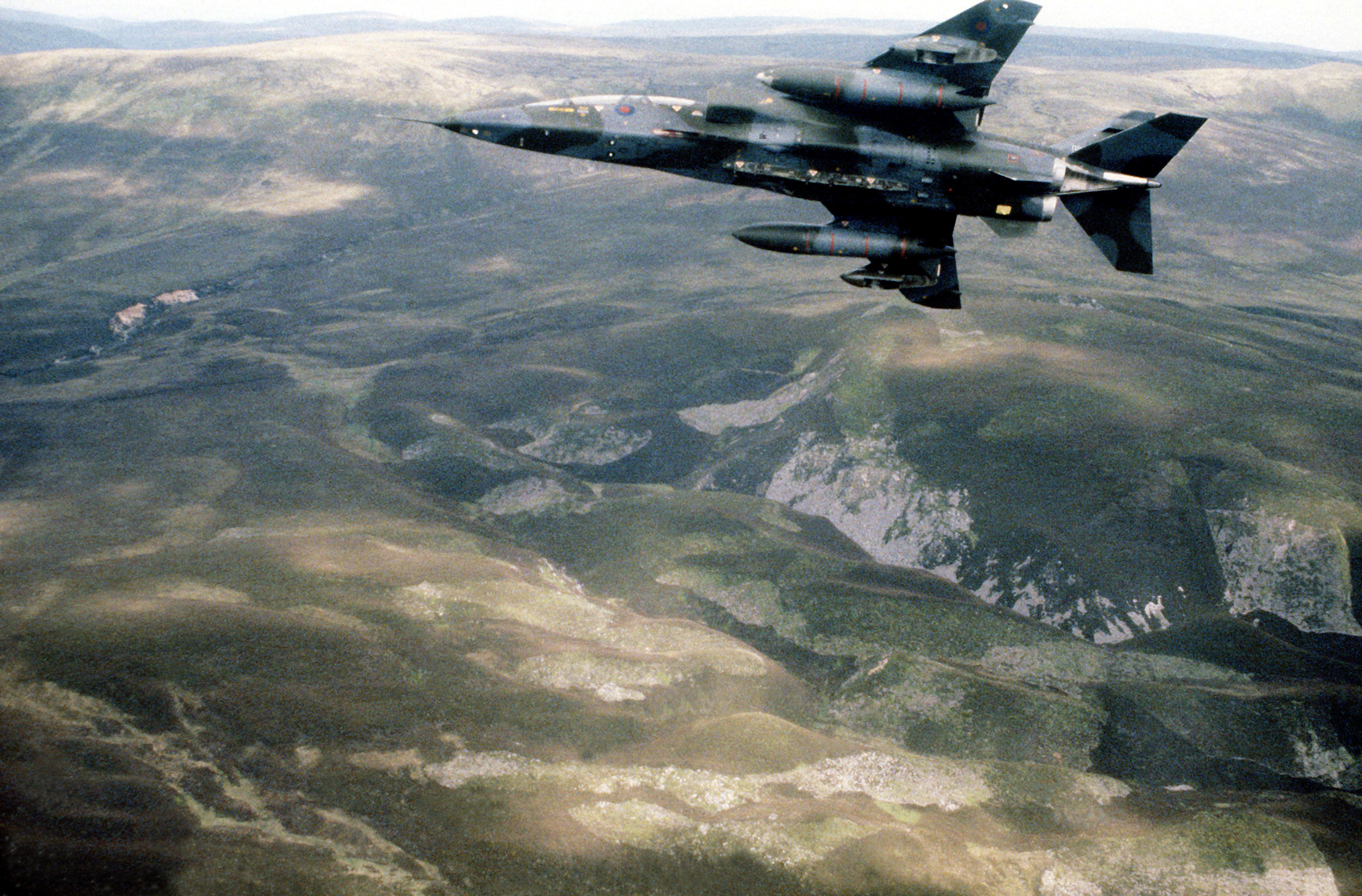 A Royal Air Force SEPECAT Jaguar T2 aircraft in flight over Scotland (UK) on 15 June 1981. The aircraft was involved in a tactical bombing competition between British and U.S. aircrews.